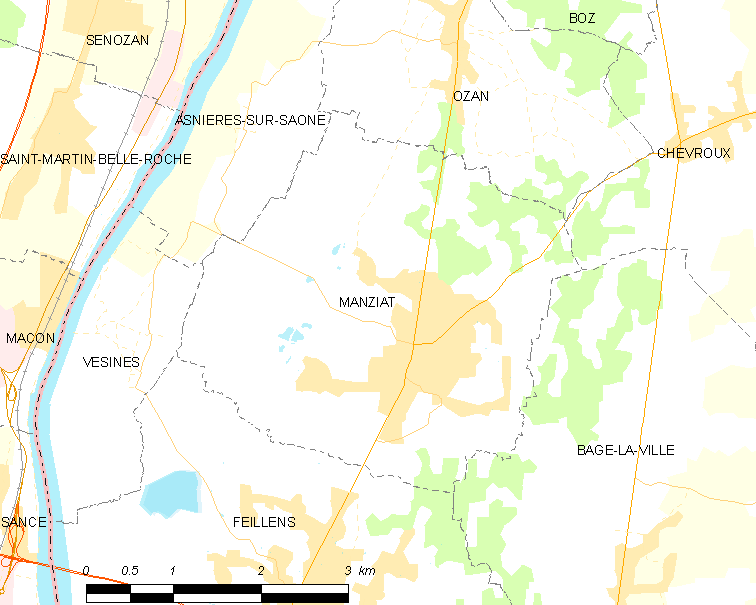 Map of French commune: Manziat Map commune FR insee code 01231.png